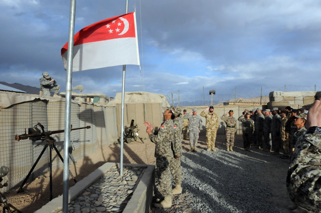 The Singapore national anthem is played while their flag is lowered for the last time at Kiwi Base here Oct. 27, 2010, signifying the end of the Singapore Army's mission with the International Security Assistance Force. The Singapore troops have been part of the New Zealand Provincial Reconstruction Team for three years doing six-month rotations. The unit's final contribution has been the oversight of the construction of a health clinic in Bamyan, the capital of Bamyan Province, Afghanistan.